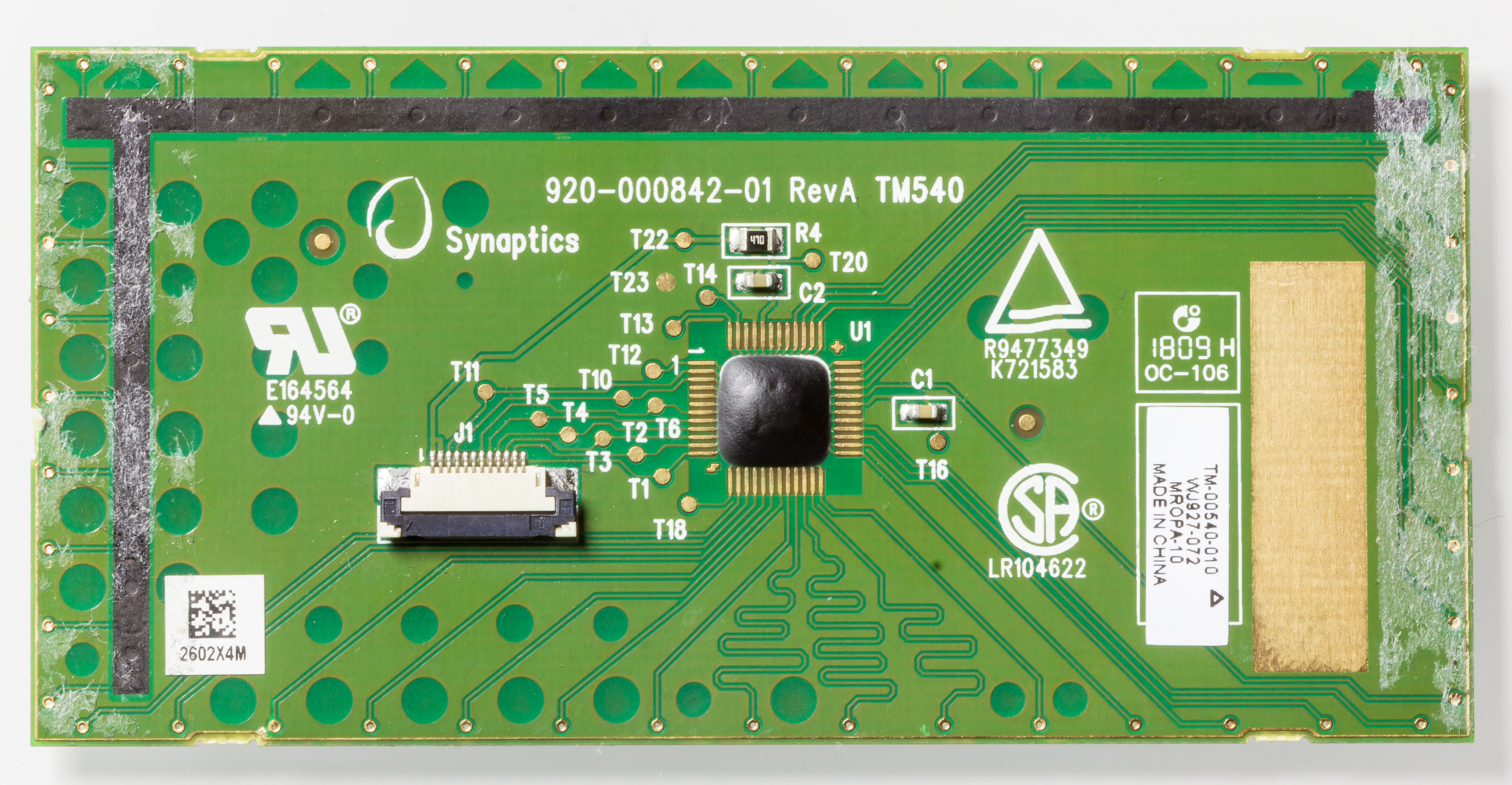 Synaptics touchpad 920-000842-01 - printed circuit board side